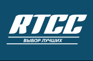 logo RTCC